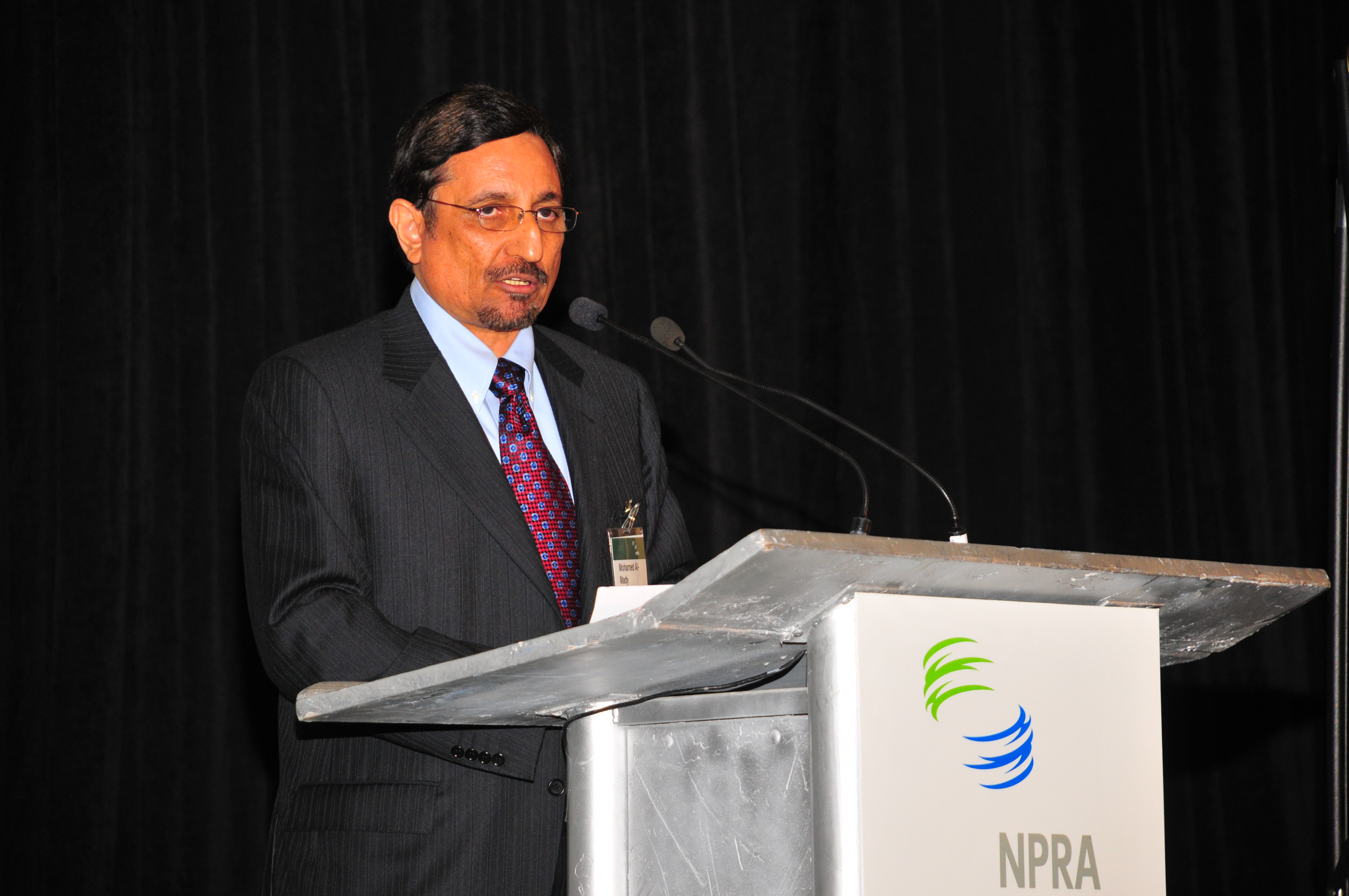 Photograph of Mohamed Al-Mady, recipient of the 2009 Petrochemical Heritage Award, at the International Petrochemical Conference of the American Fuel and Petrochemical Manufacturers (AFPM: formerly NPRA), held March 29-31, 2009, at the Grand Hyatt San Antonio in San Antonio, Texas.